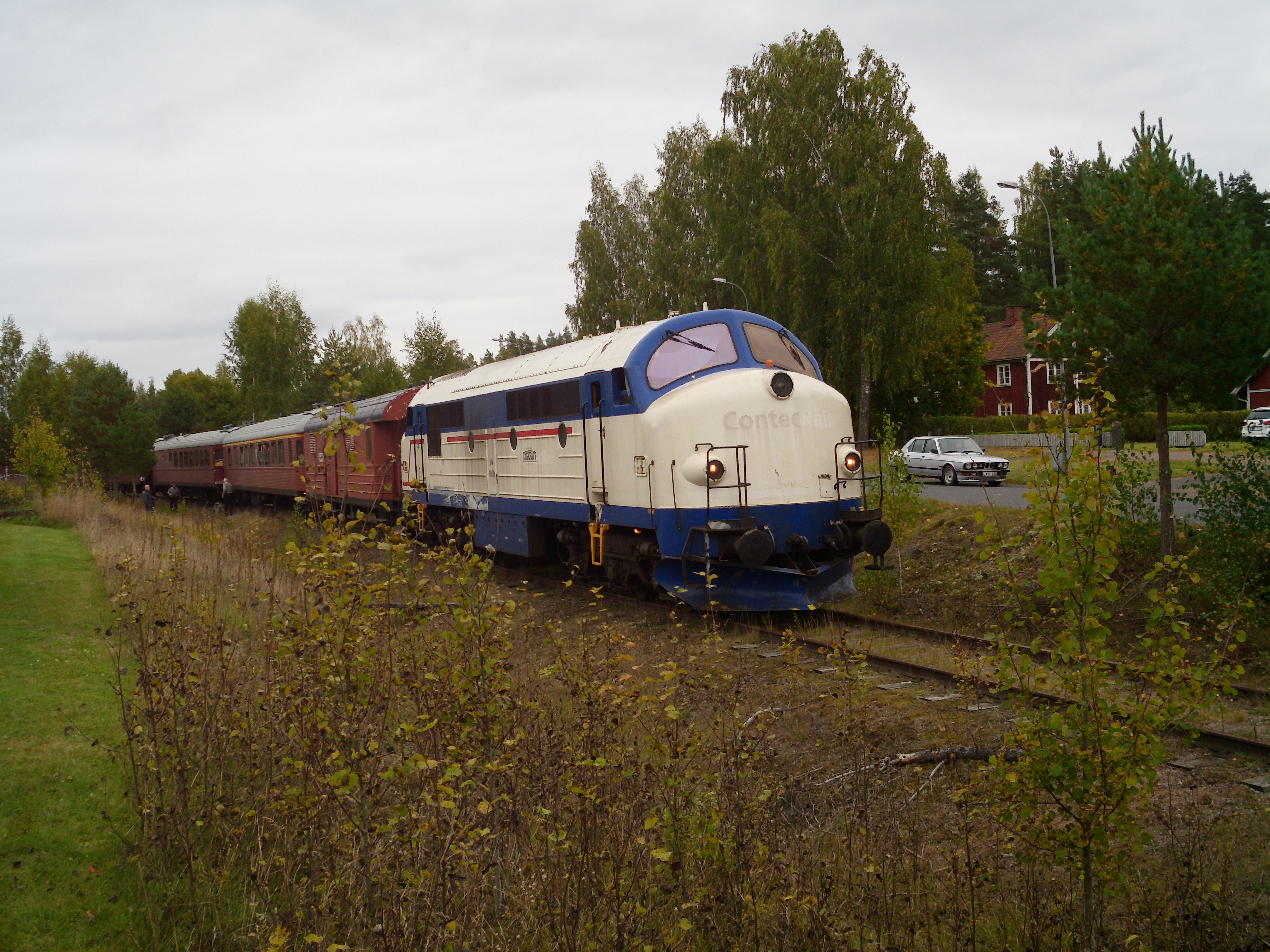 Tourist train in Järnforsen, Sweden, at the end of a business track.